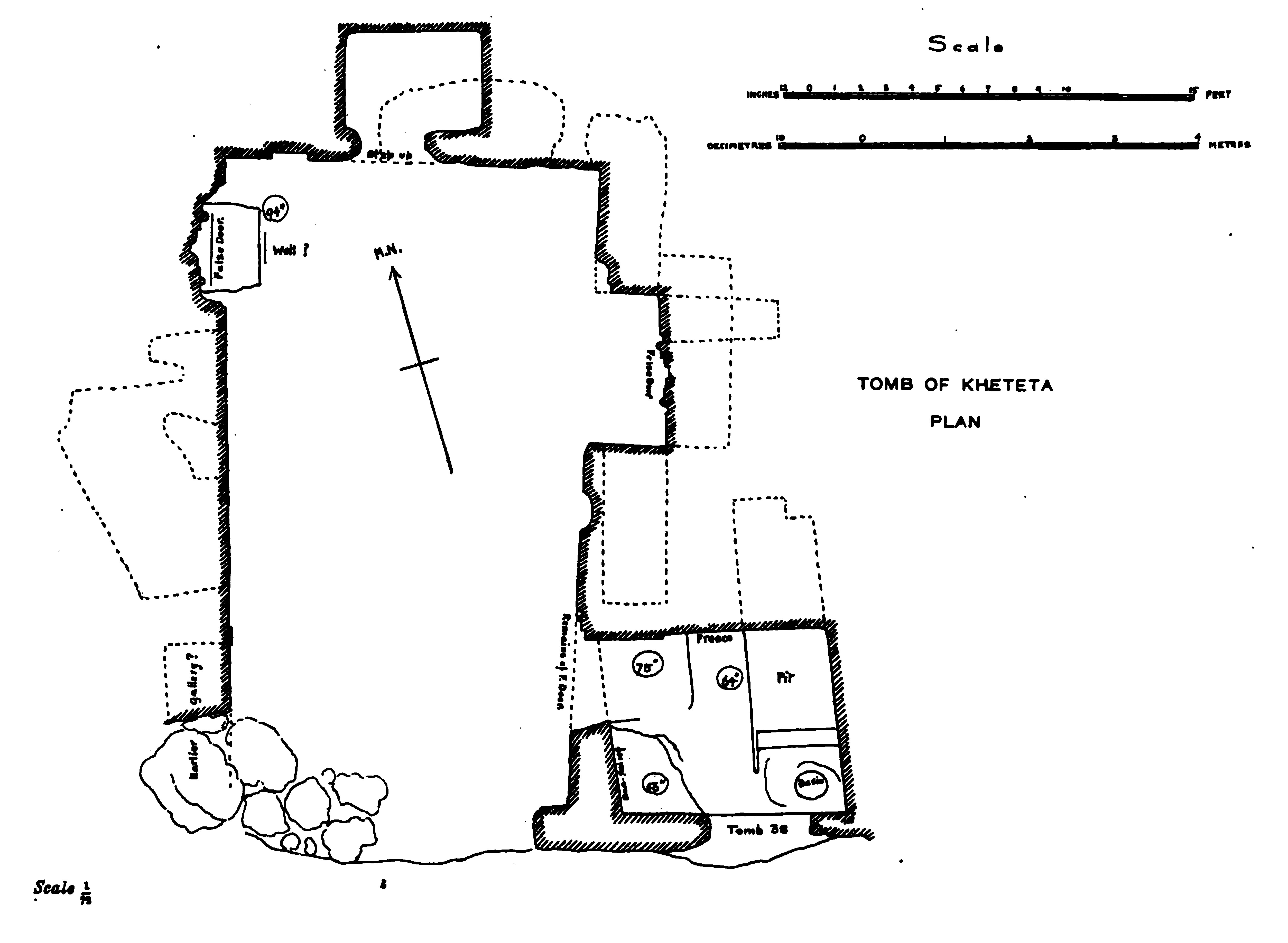 Deir el-Gebrawi rock tomb N39 (Henqu I)